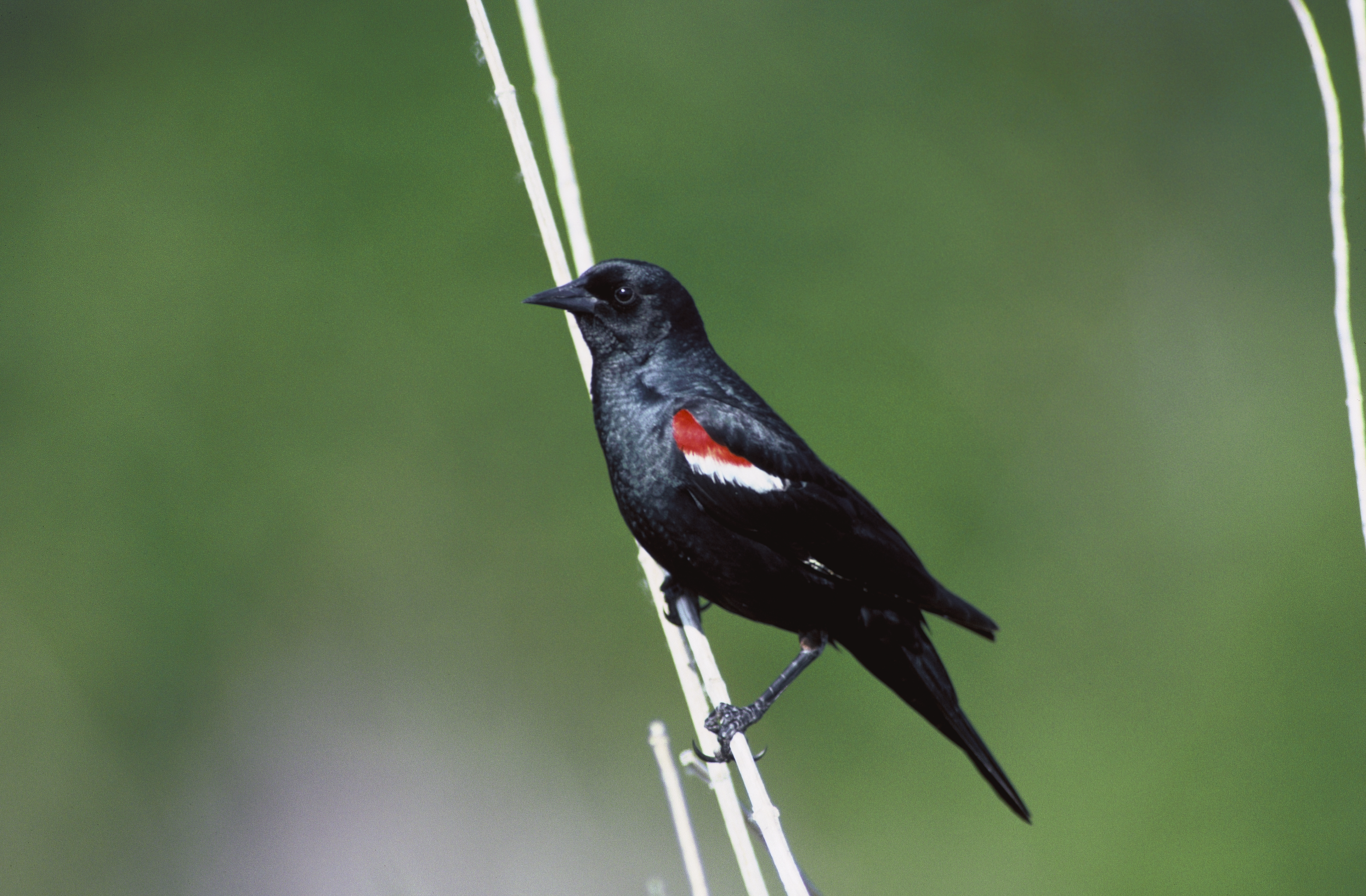 Tricolored blackbird male, Agelaius tricolor